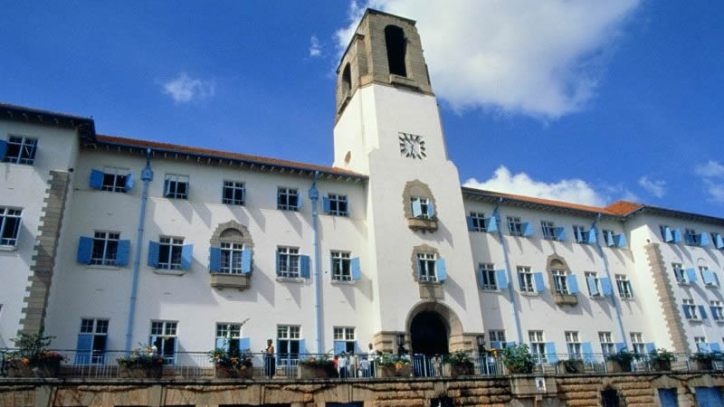 Makerere University tower